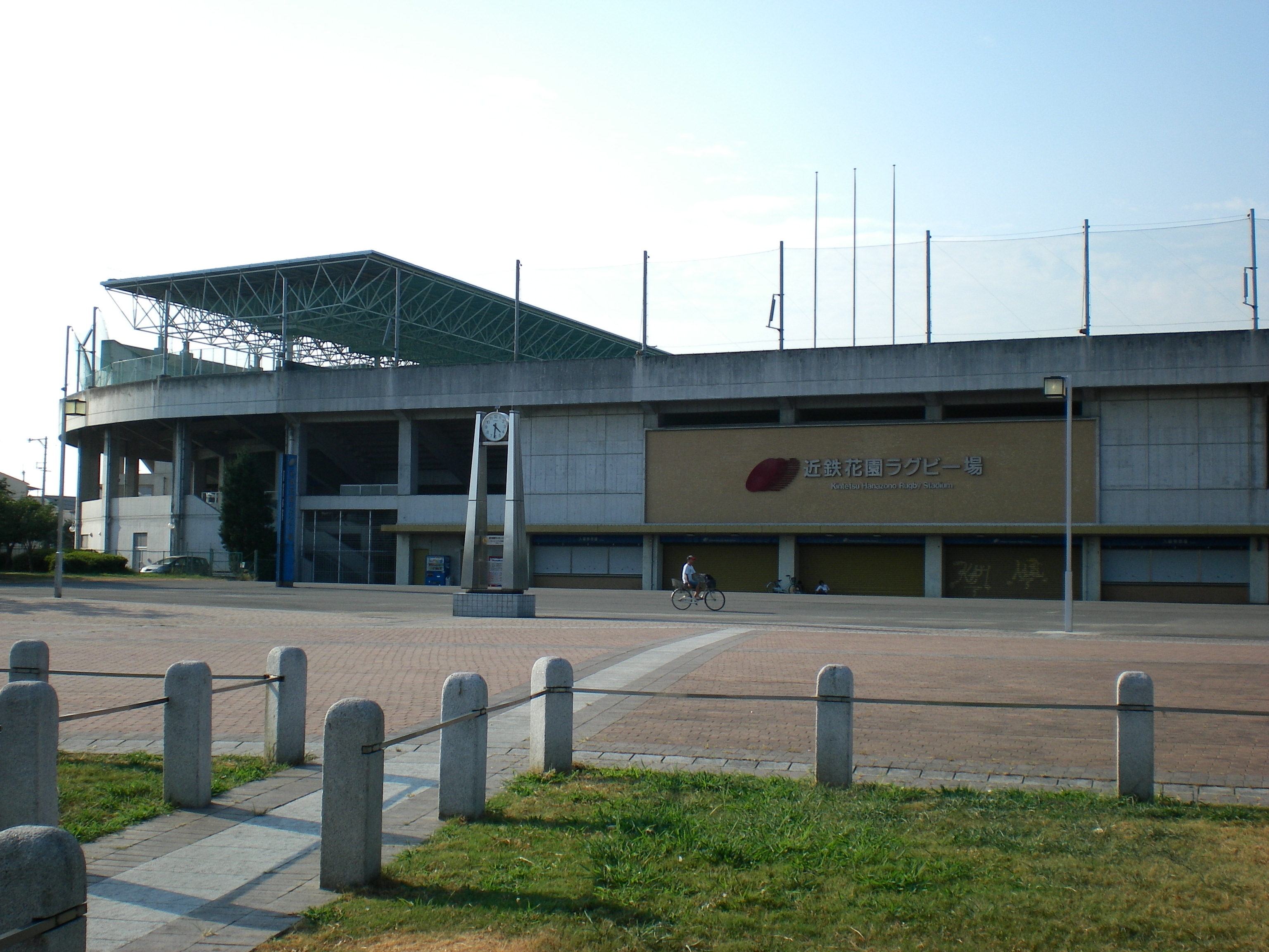 Higashi Osaka Hanazono Rugby StadiumEntrance